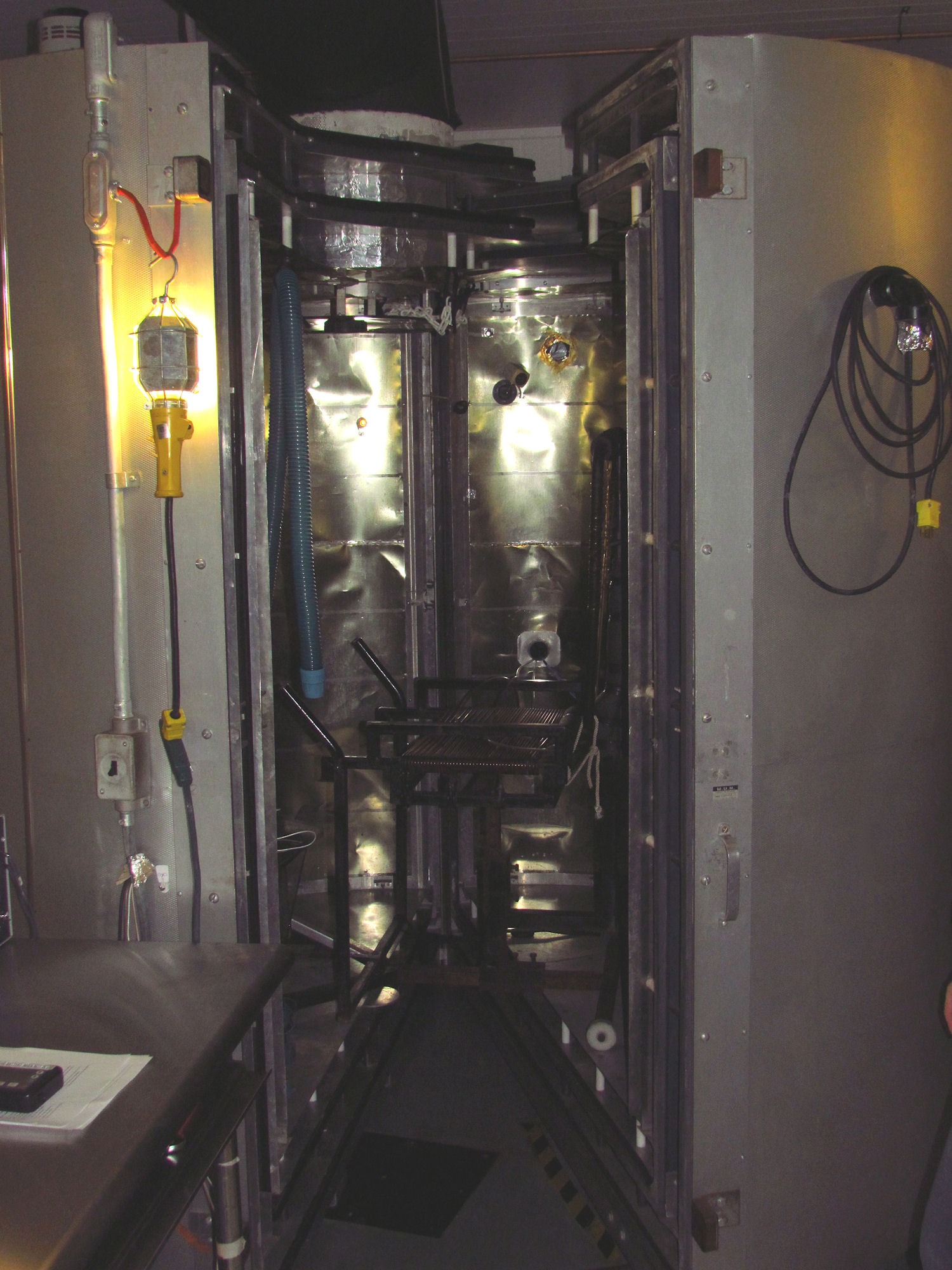 Snellen direct calorimetry chamber, School of Human Kinetics, University of Ottawa, Ottawa, Ontario, Canada